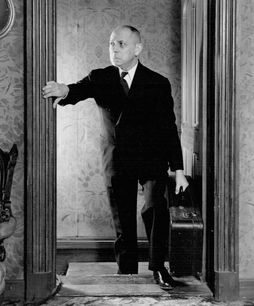 Photo of Erich von Stroheim from the Broadway production of Arsenic and Old Lace. From circa 1941 to 1943, Stroheim played the role of Jonathan Brewster, which was originally played by Boris Karloff. The item has no copyright markings on it as can be seen in the links above.